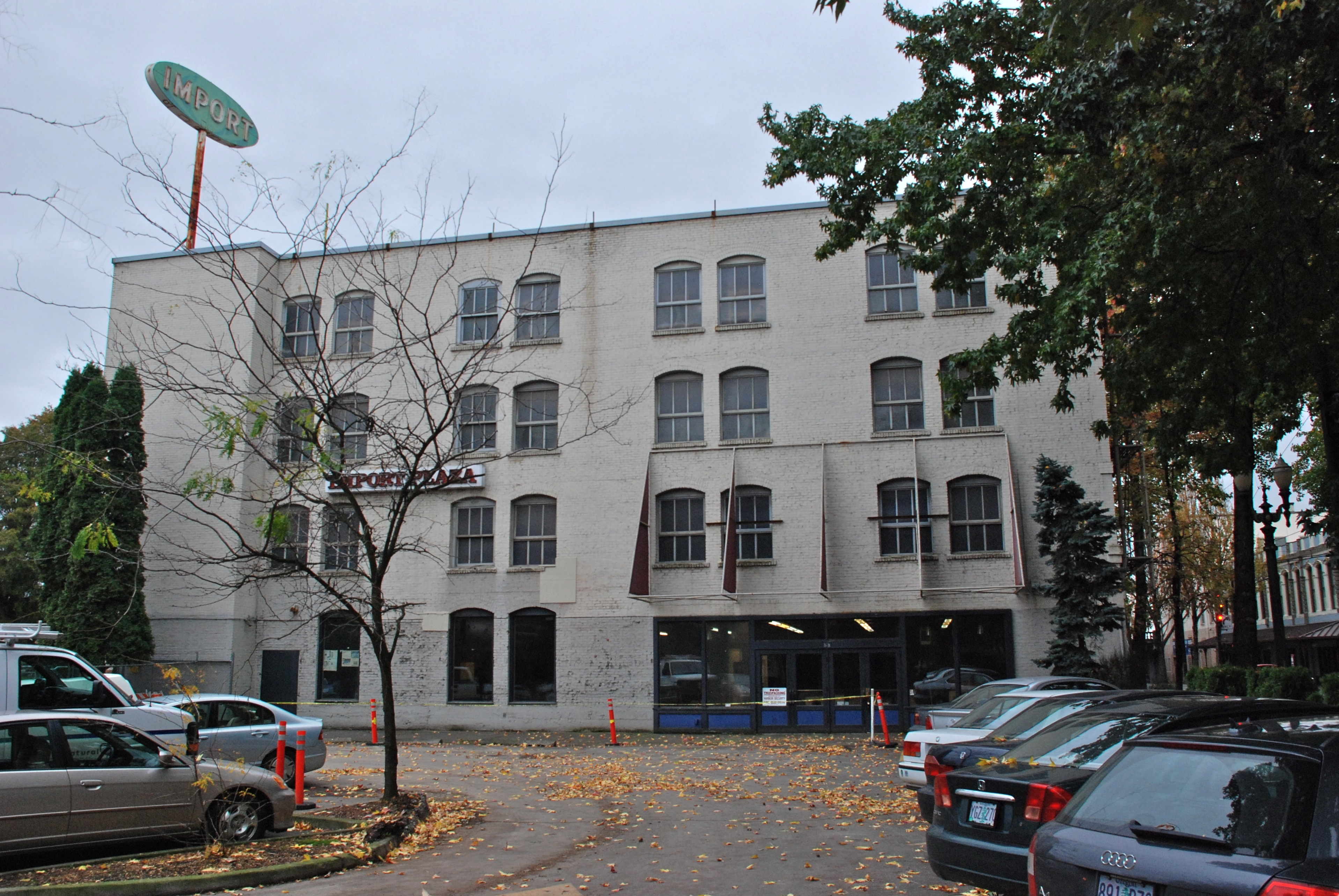 The former Import Plaza store (first and main location of chain), in Portland, Oregon, viewed after its closure (in 2000). The building had been vacant for years, and yet at the time of this photo, the rooftop neon sign was still continuously rotating on its post, reading "Import" on one side and "Plaza" on the other. In 2011–12, the building was renovated to become the new home of the Oregon College of Oriental Medicine (OCOM), completed in June 2012, and the rooftop sign now reads "OCOM".